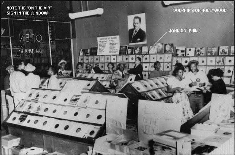 John Dolphin inside the all night 24 hour Dolphin's of Hollywood Record Shop with live broadcast going on inside front window of store.